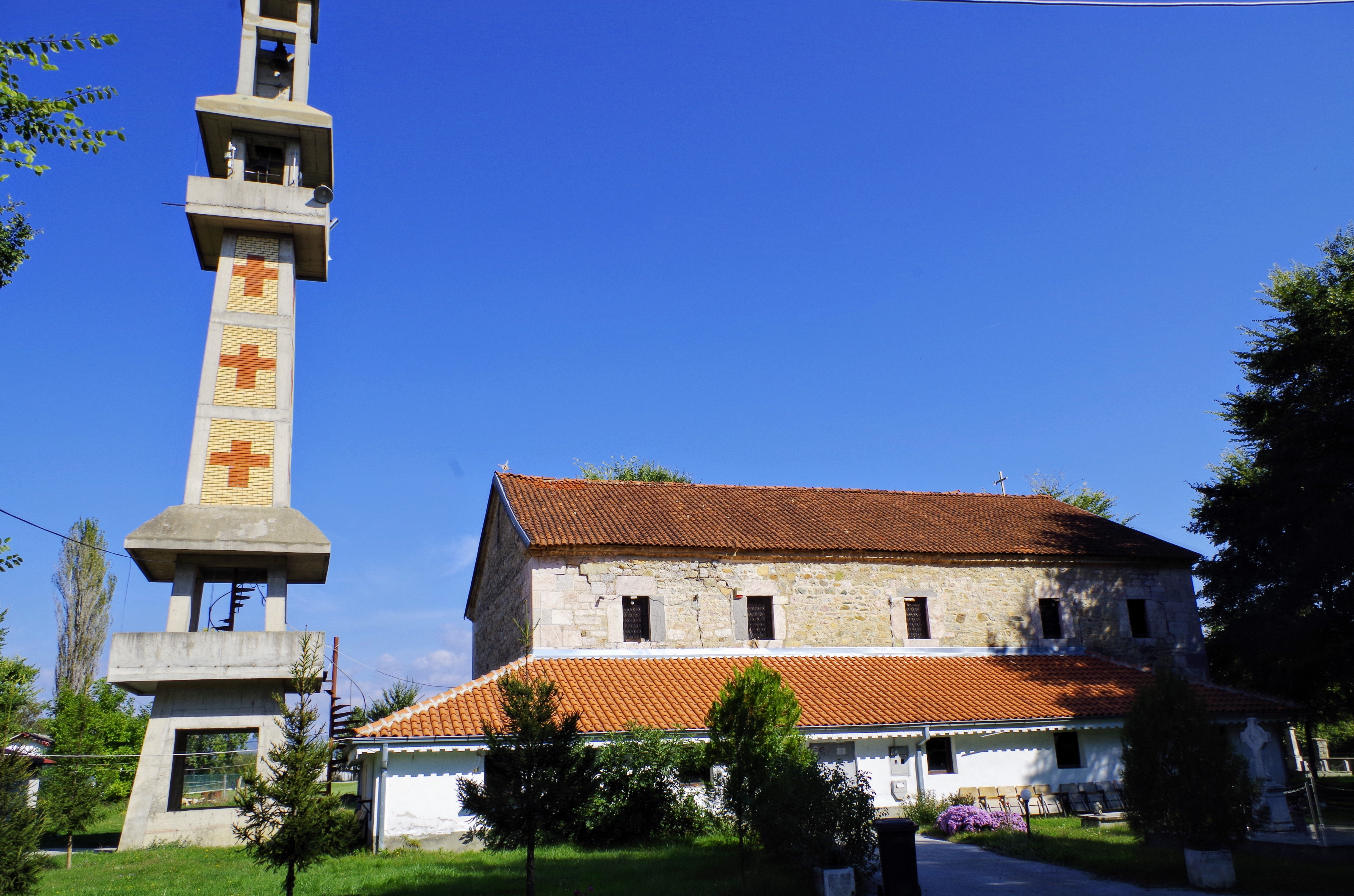 View of the St. Nicholas Church in the village Carev Dvor